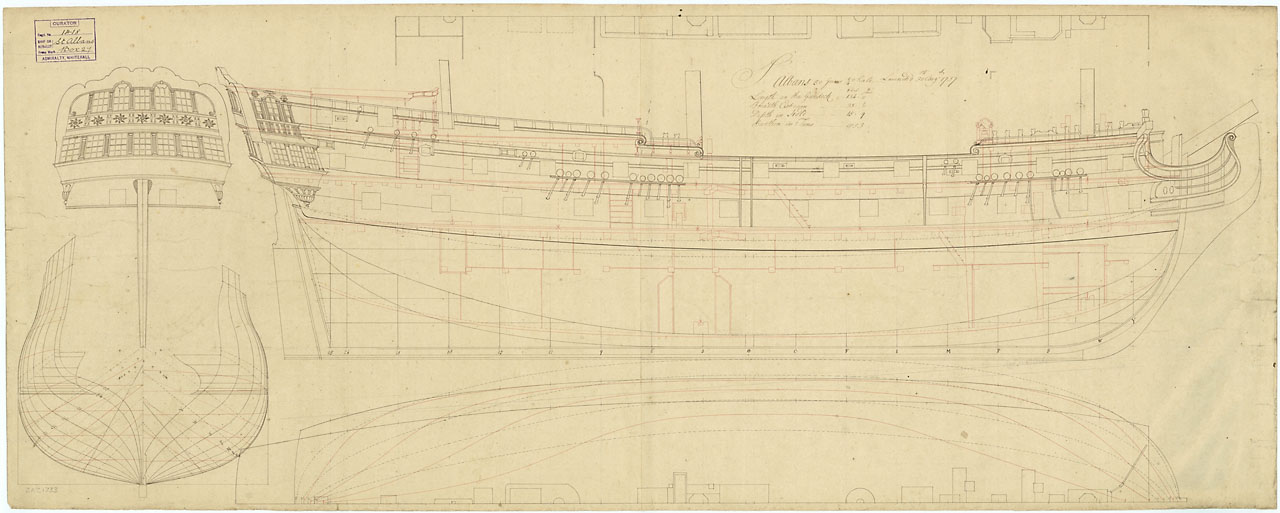 Saint Albans (1737) Scale: 1:48. Plan showing the body plan, stern board with some decoration detail, sheer lines with inboard detail, upper deck details, and longitudinal half-breadth with lower deck details for Saint Albans (1737), a 1733 Establishment 50-gun Fourth Rate, two-decker, as built at Plymouth Dockyard. ST ALBANS 1737